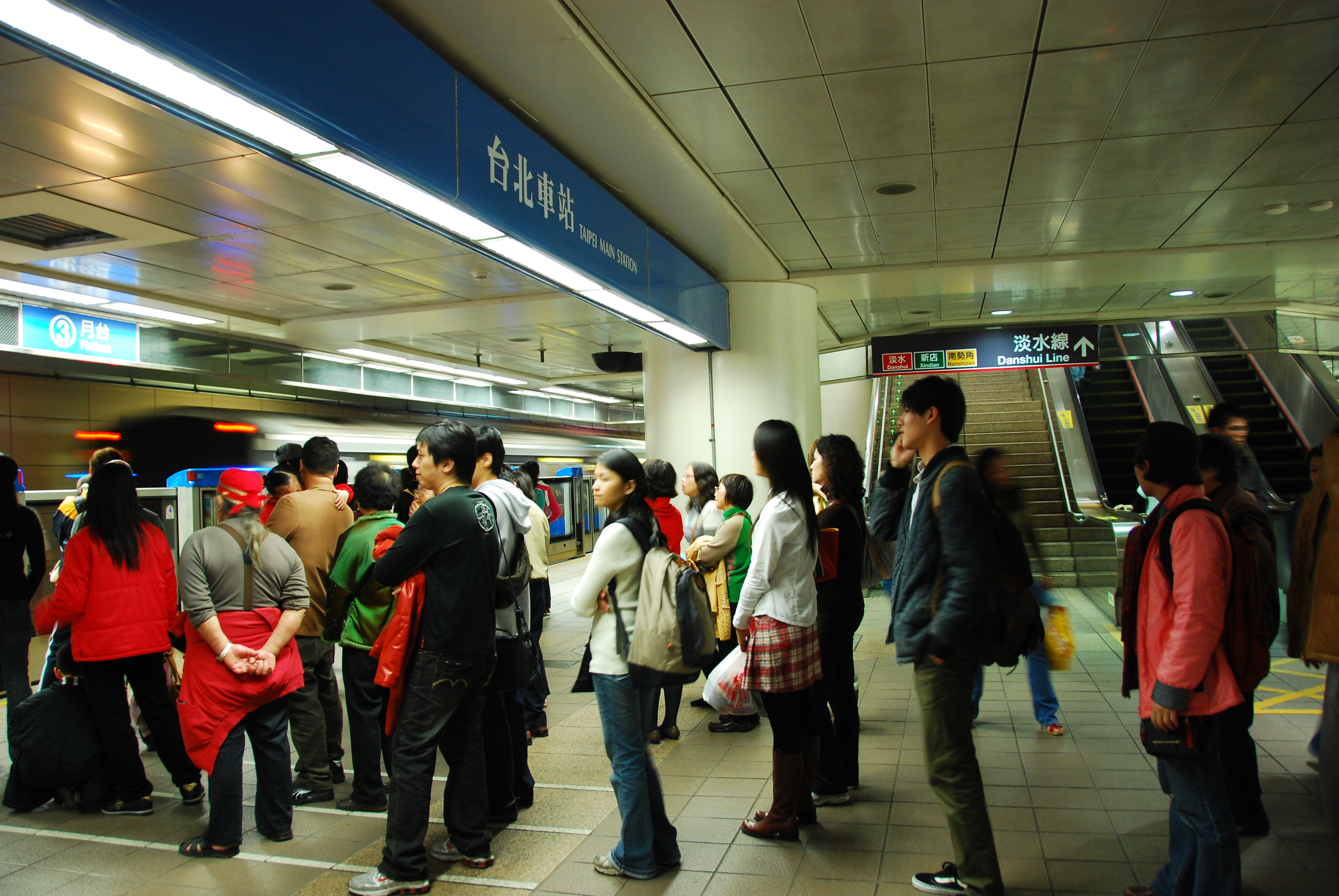 Platform 3, Taipei Main Station, Taipei Metro.